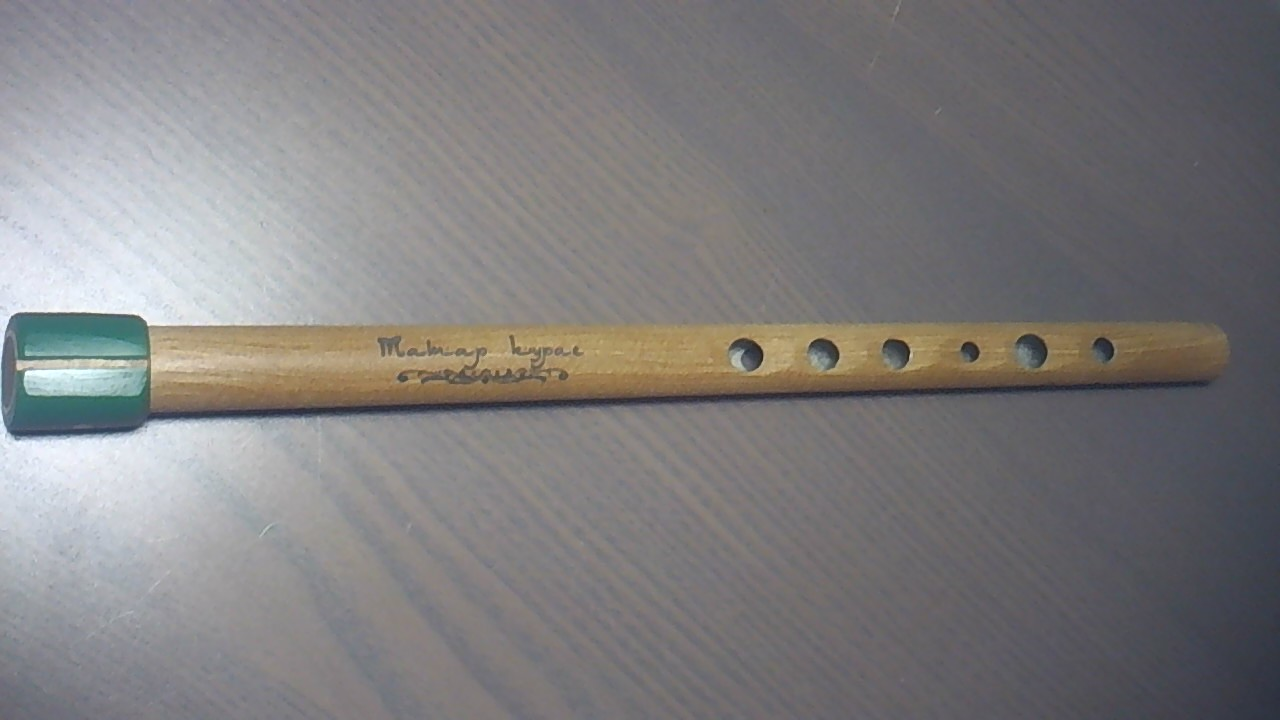 Sample modern Tatar quray, available from music stores in Kazan and other cities in Tatarstan. This particular one was bought for and used by my daughter. Writing in Cyrillic Tatar Татар курае reads Tatar qurayı.